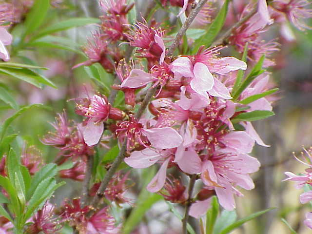 Species: Prunus tenella Family: Rosaceae Image No. 1